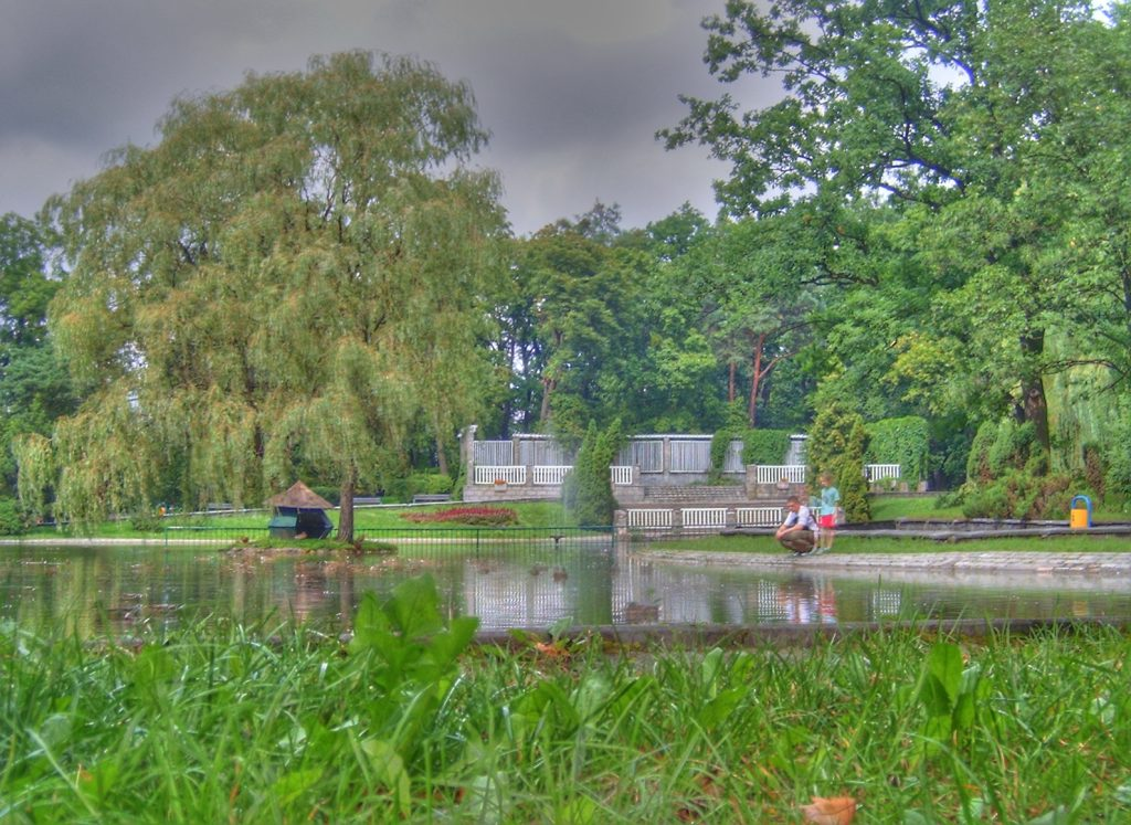 Miejski Park in Grudziądz, Poland.